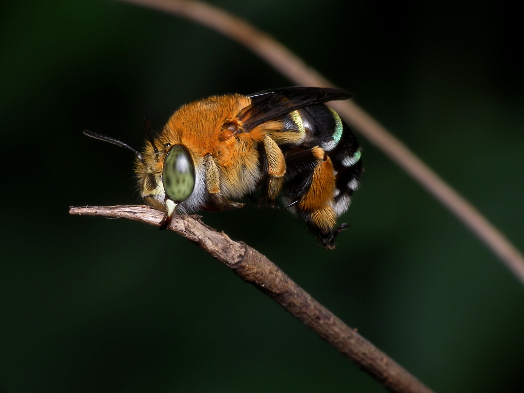 Biting into a stick for a night's rest Family Anthophoridae Blue-banded Bee - Amegilla cingulata Blue-banded Bees are known as buzz pollinators. They use a special technique to get the pollen from flowers known as buzz pollination. They hold the flowers and vibrate with a loud buzzing sound. The vibration excites the flower which drops the pollen onto the bees body. Other insects do not know this technique and cannot get the pollen. Every time the bee rests on a flower, you can hear a short loud buzzing sound. Blue-banded Bees are are native to Australia, although they or their close relatives can be found in other continents. They do sting but they are not aggressive, i.e., they will not attack unless disturbed. They love blue flowers. To encourage their visit, you may grow more blue flowers in your garden. Info from one of my favorite insect sites